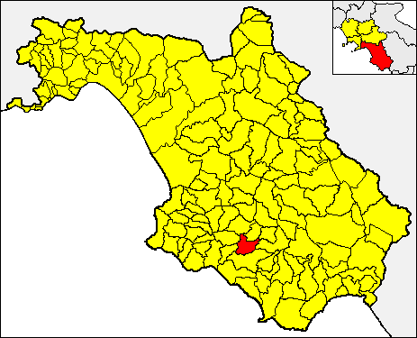 Locator map of the municipality of Vallo della Lucania (red) within the Province of Salerno